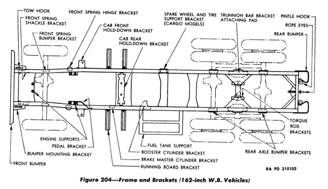 Studebaker US6 truck frame from US Army TM 9-807